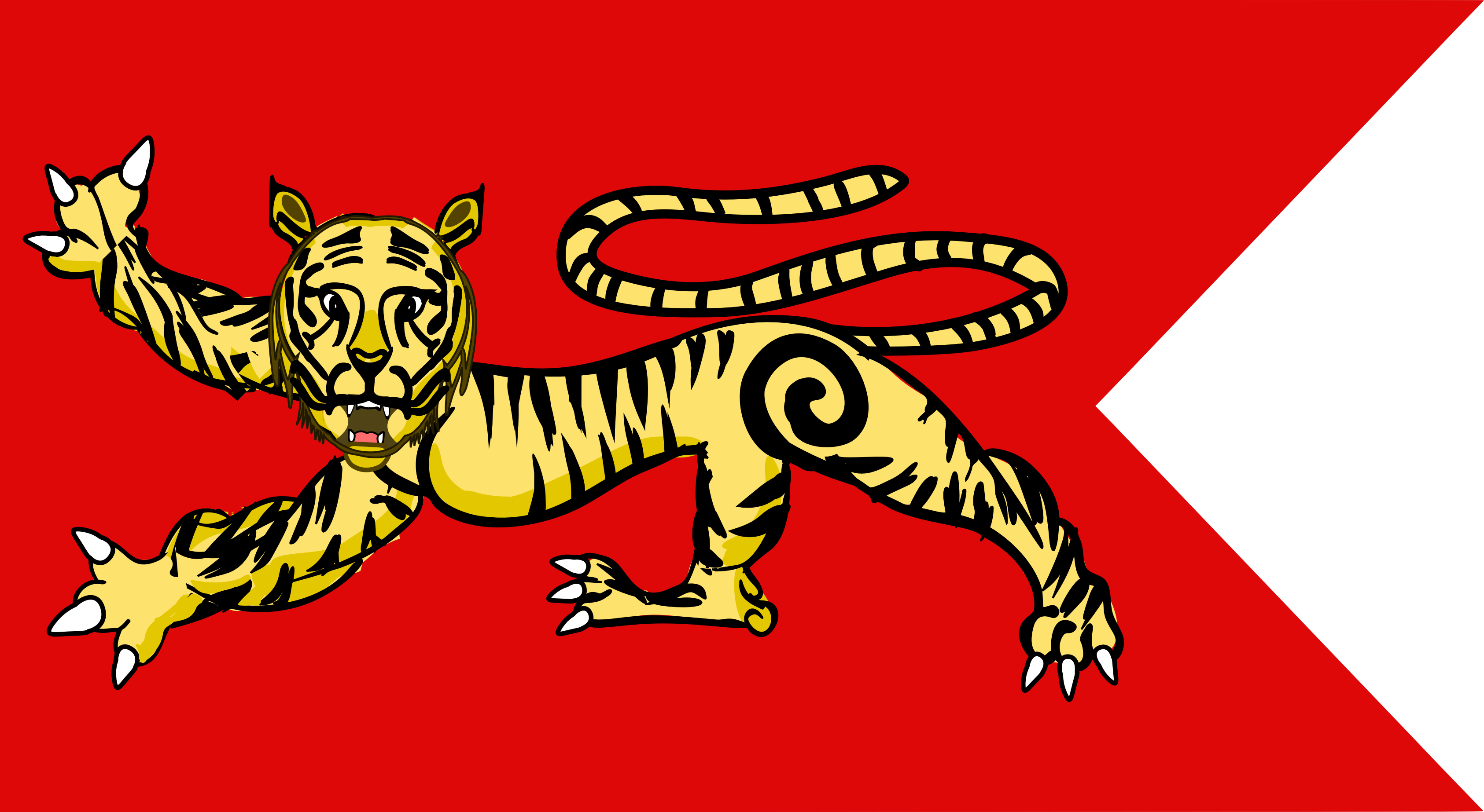 Flag of the Chola Empire. Unreferenced